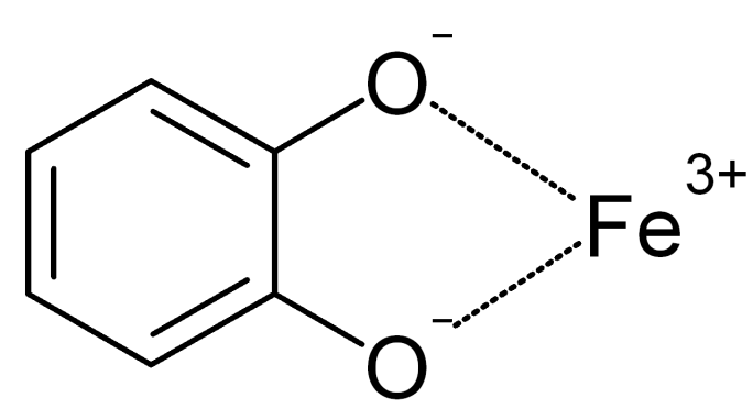 Structure of Catecholate-Iron-Complex